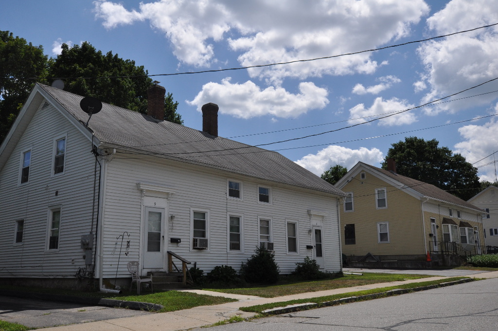 Taftville Historic District, Norwich, Connecticut.